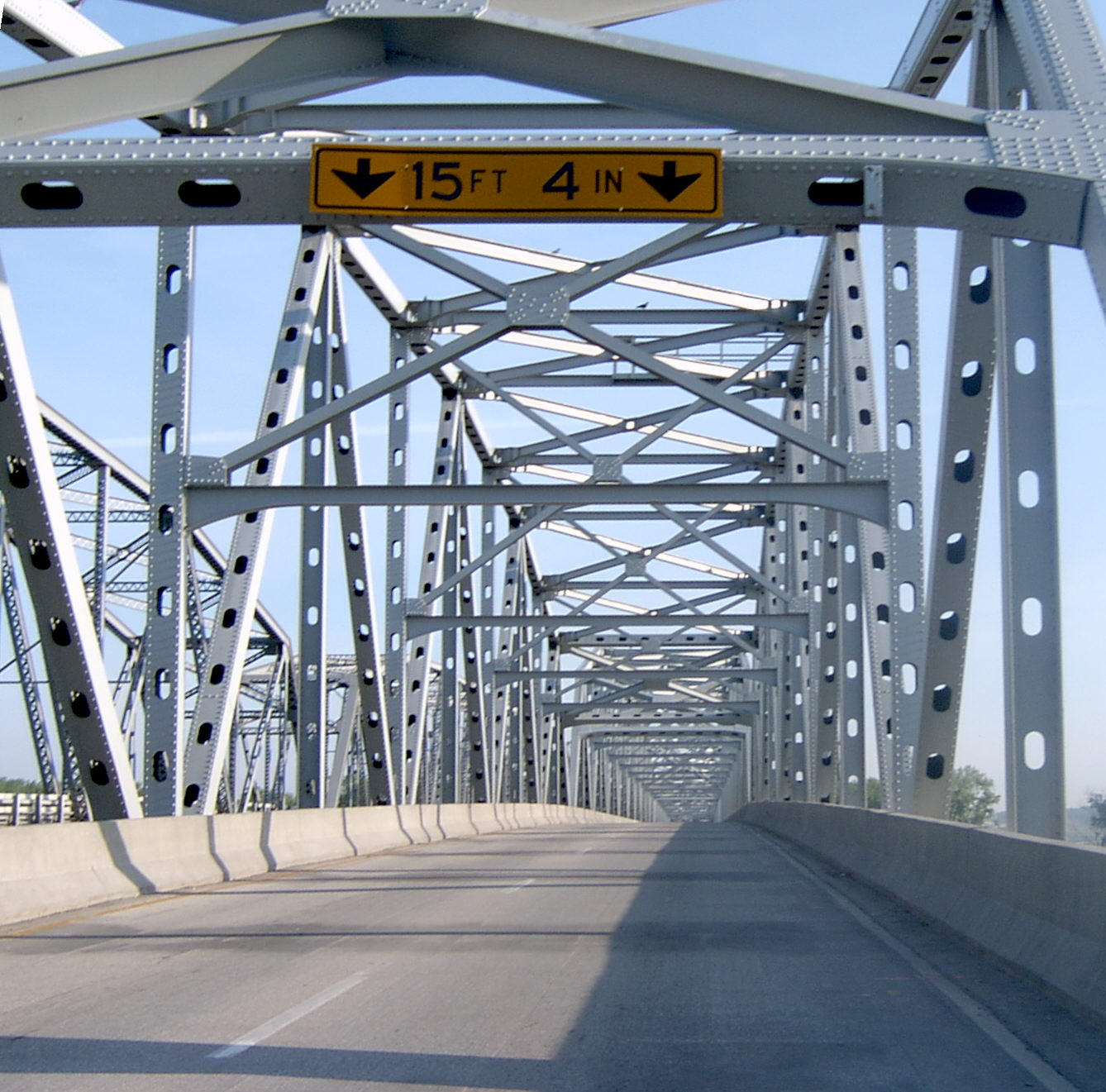 Interior view of the Platte Purchase Bridge over the Missouri River, connecting Platte County, Missouri to Kansas City, Kansas. Photo by Brent Hugh, released into the public domain by the photographer.